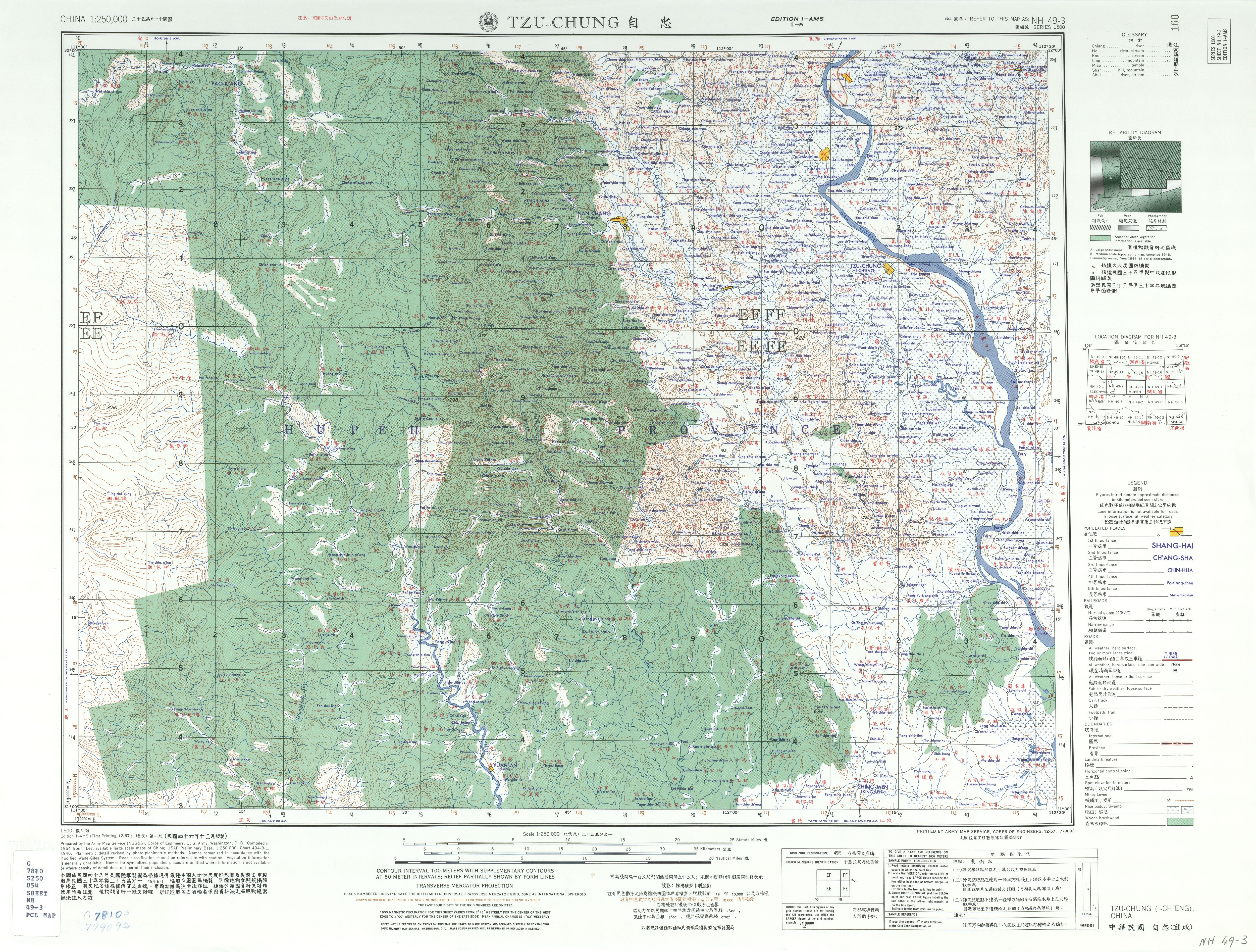 China AMS Topographic Maps